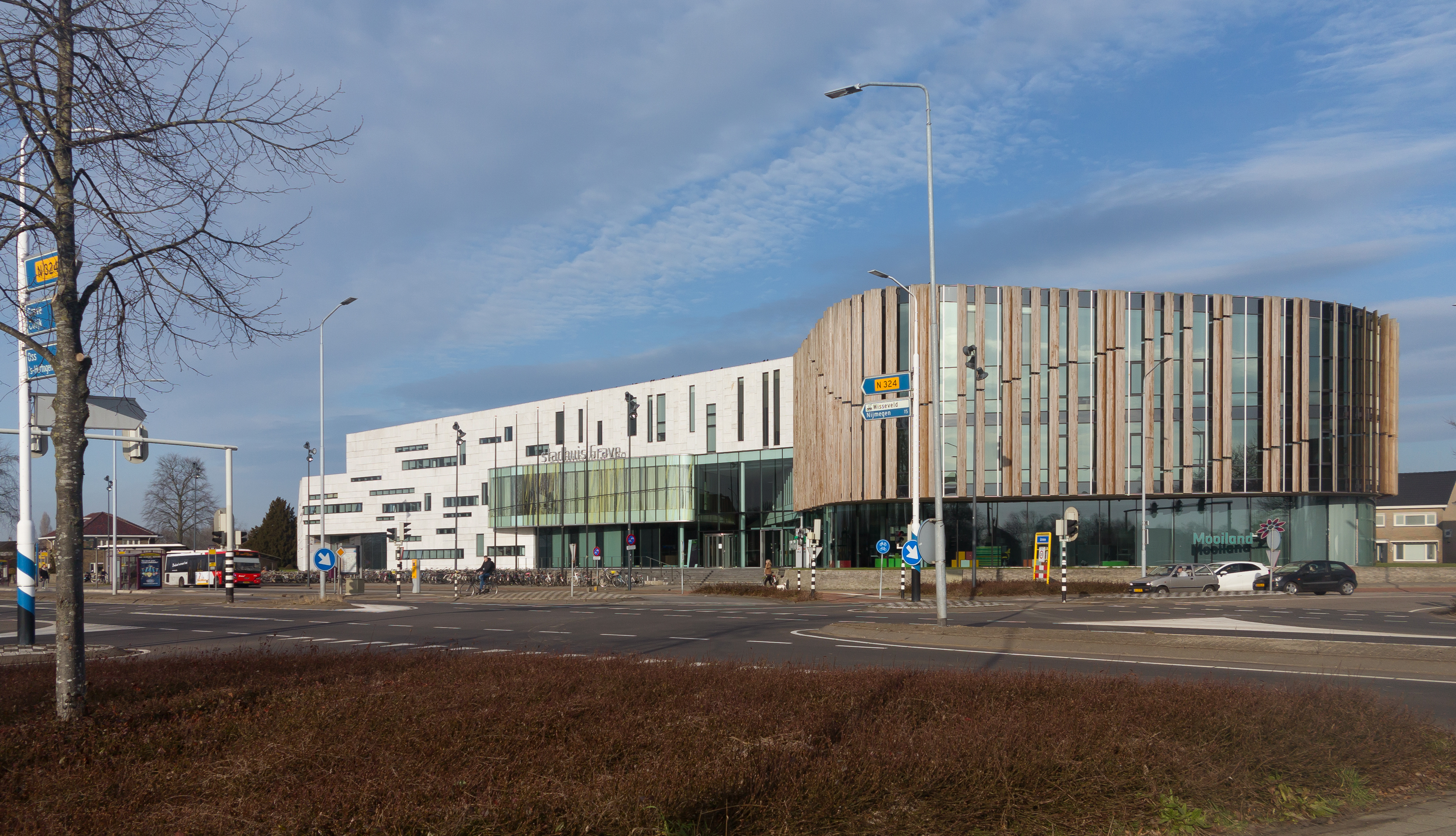 Grave, townhall